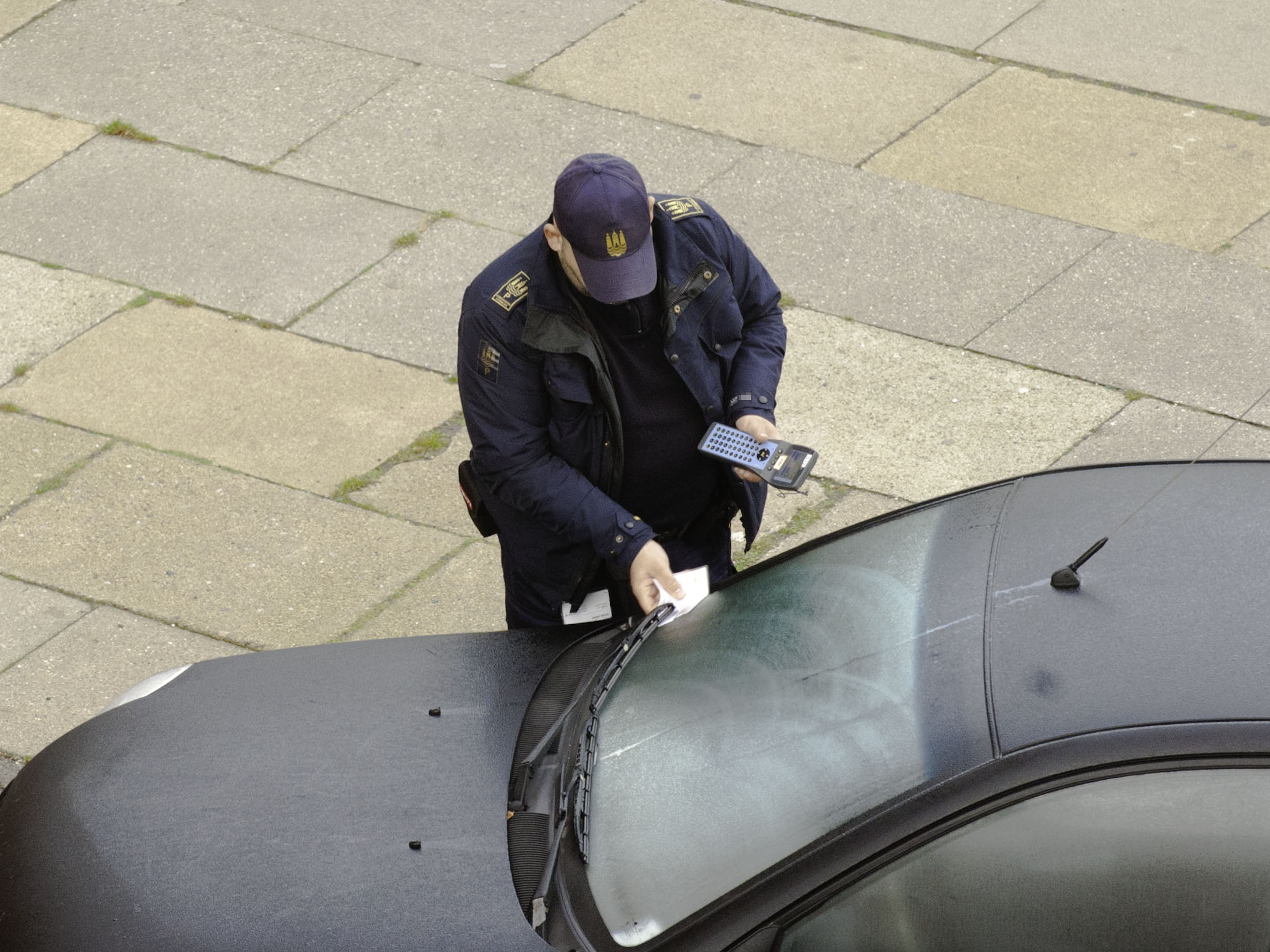 A serviceman from the Parking Department of Copenhagen Municipality, delivering a parking fine (put under the wiper) on an illegal parked car.